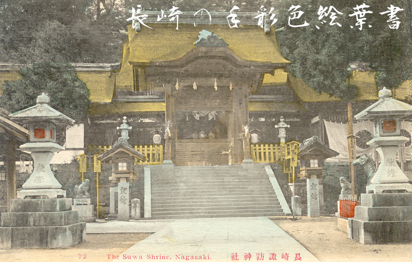 Japanese hand tinted postcard showing Suwa Shrine in Nagasaki